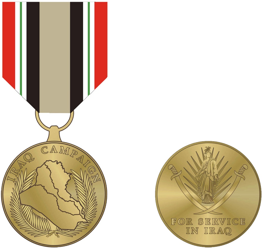 Iraq Campaign Medal (with reverse) of the United States Armed Forces.